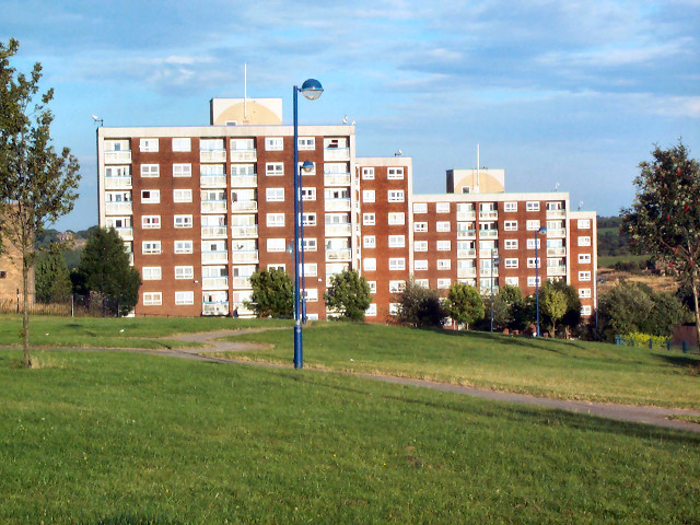 Flats on Dane Court Road, Holme Wood. Ogden House and Kelvin House on Holme Wood estate. These are the only blocks of flats in Holme Wood, the rest of the estate is low rise as shown in other photos.